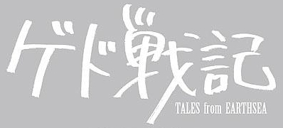 Gedo Senki (Tales from Earthsea) title, from Japanese Blu-ray cover.